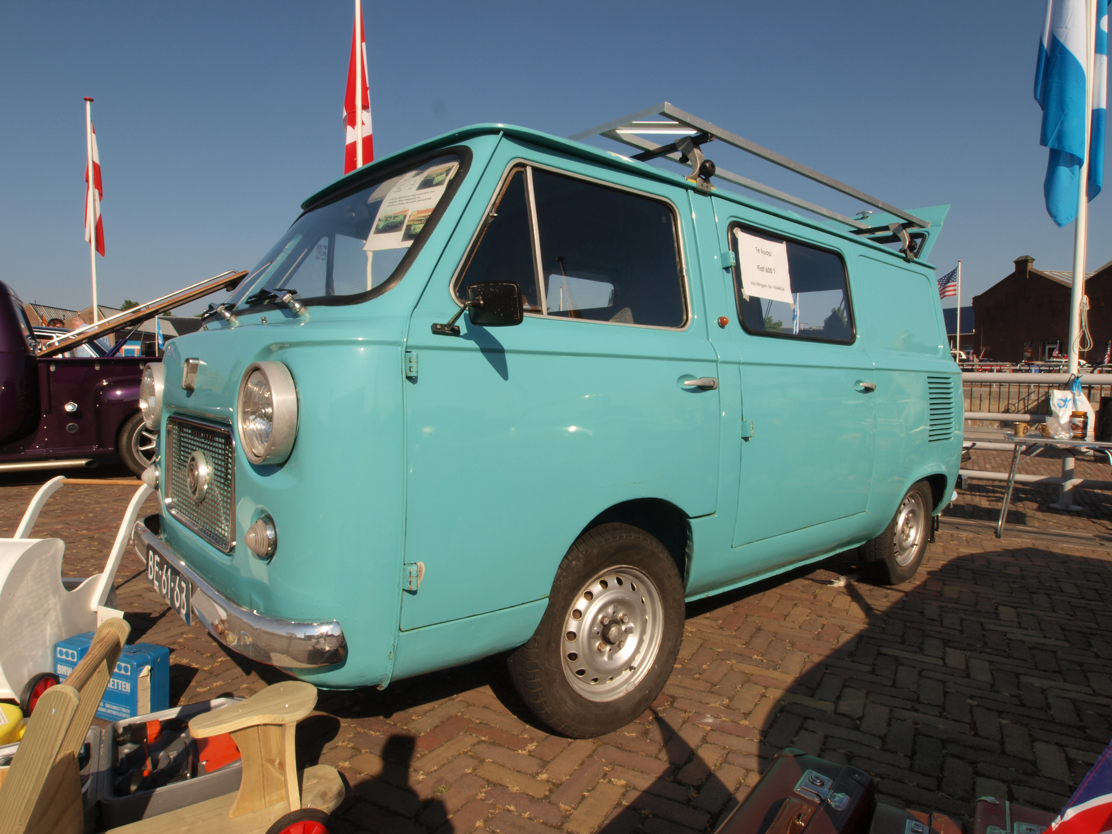 Photographed at Den Helder, The Netherlands. OLYMPUS DIGITAL CAMERA